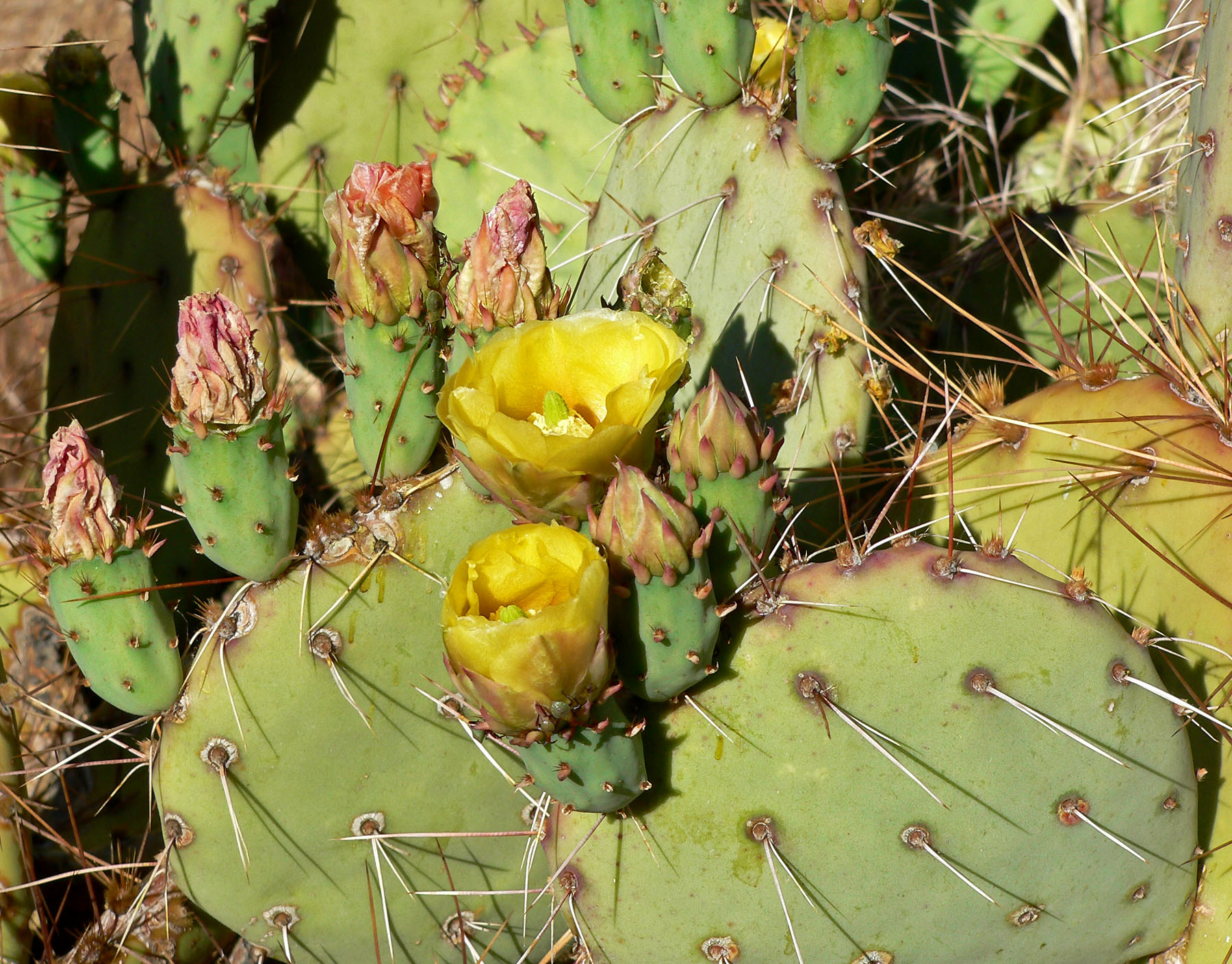 Opuntia phaeacantha in Calico Basin, west of Las Vegas, Nevada